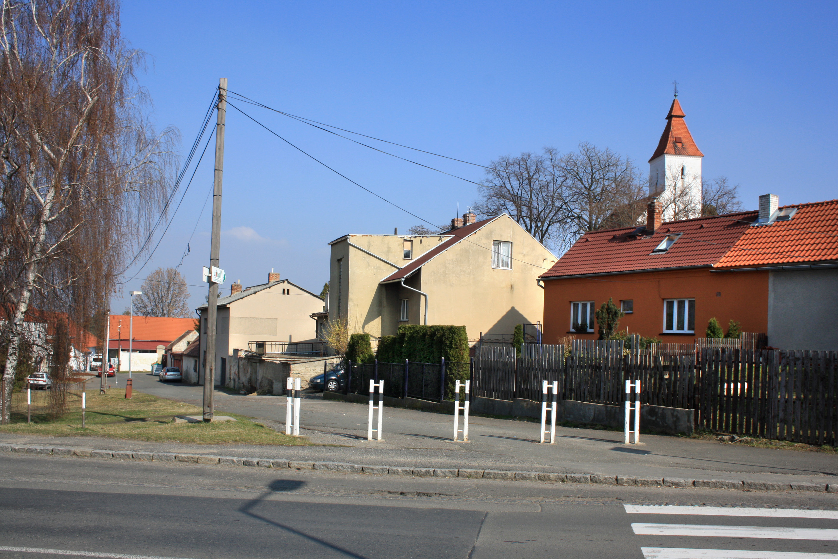 U Kostela street in Hovorčovice, Czech Republic